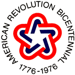 American Revolution Biccentennial 1776-1976. Bicentennial Logo. Commissioned by the American Revolution Bicentennial Commission, members appointed president Gerald Ford for Celebratory and event purposes, 1975-1976, historical, U.S. government public domain.